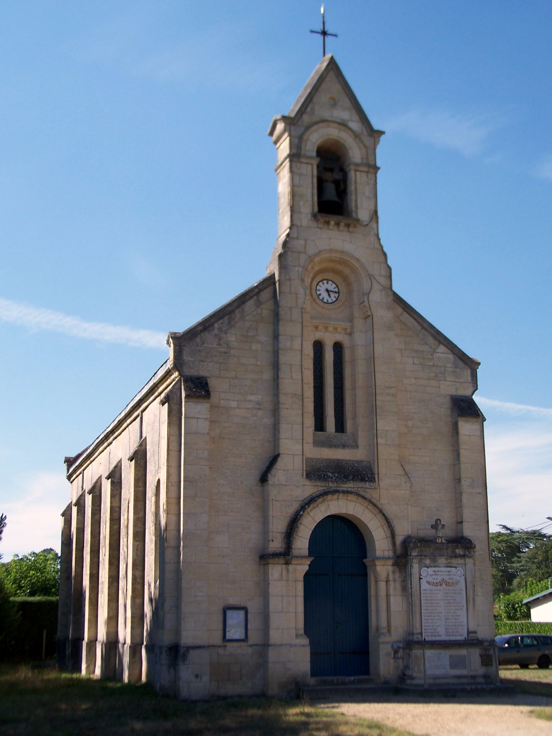 Saint John church of Villagrains in Cabanac-et-Villagrains (Gironde, France)